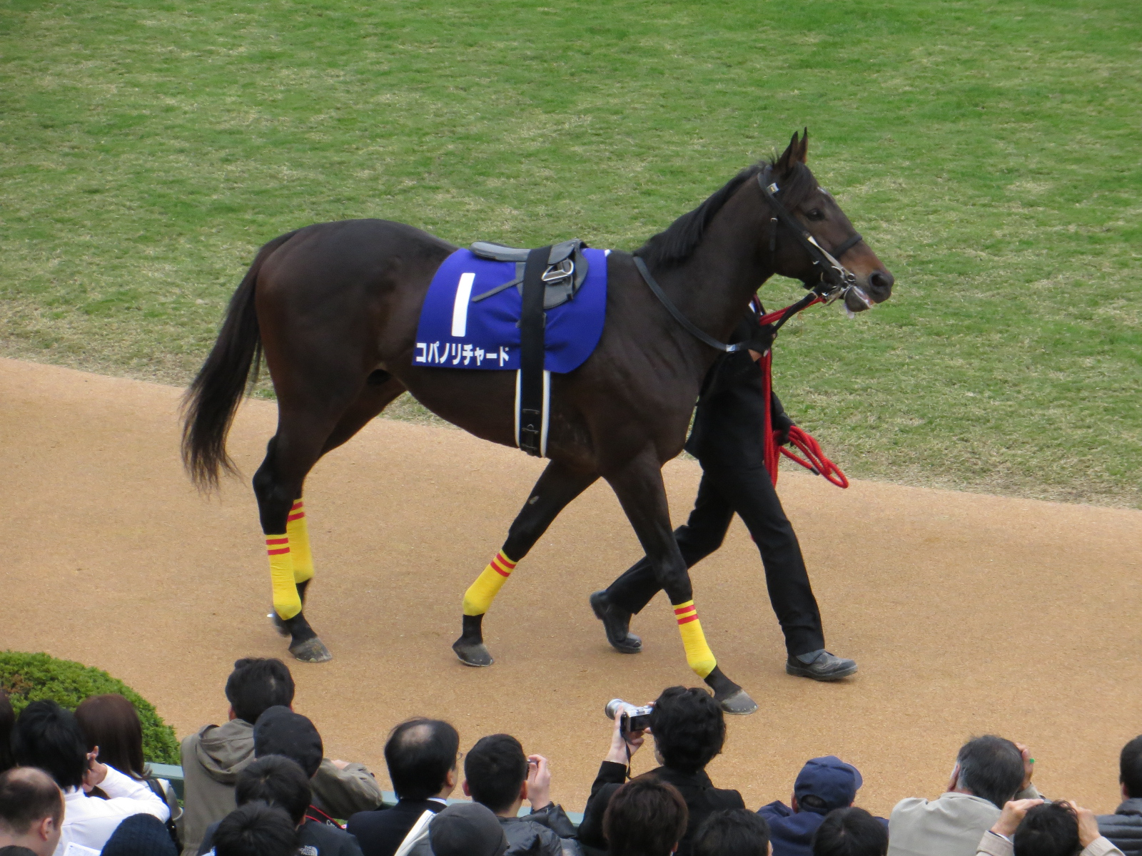 Copano Richard (Racehorse of Japan)